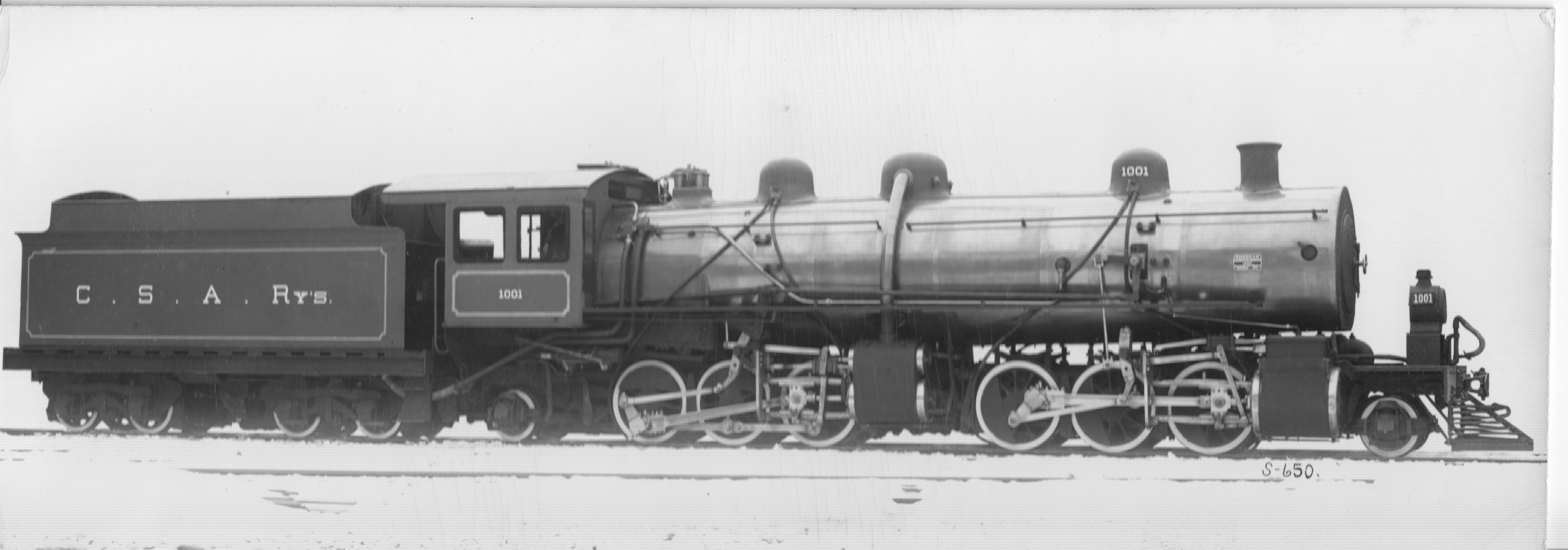 Class MD Mallett ex CSAR 1001